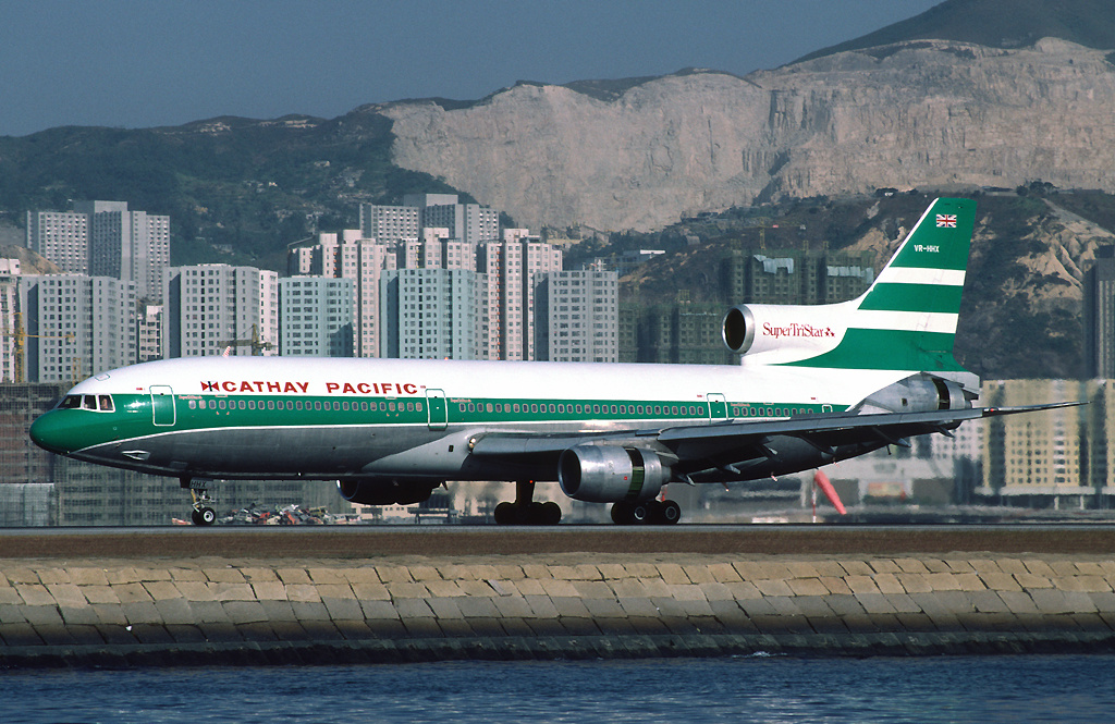 Cathay Pacific Lockheed L-1011-385-1 TriStar 1 at Kai Tak Airport